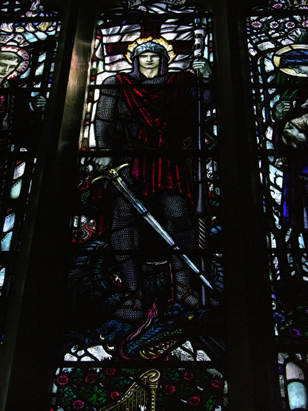 Karl Parsons window in St Laurence Church East Harptree Somerset